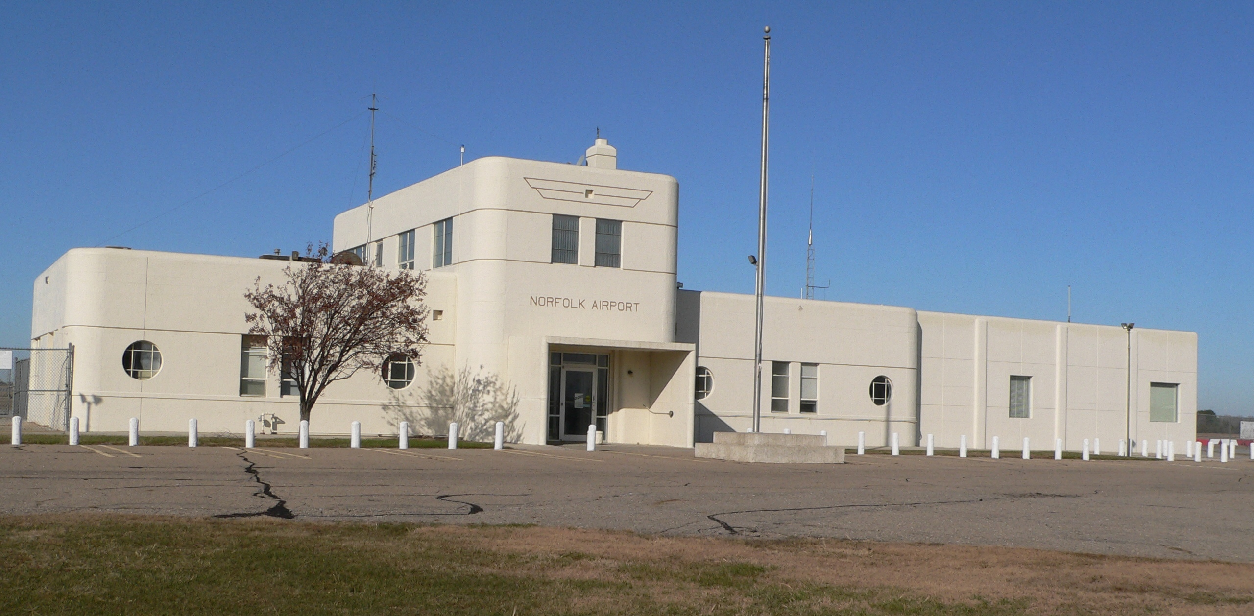 The Karl Stefan Memorial Airport Administration Building in Norfolk, Nebraska, seen from the east. The building is on the National Register of Historic Places. It was designed in the Streamline Moderne style by architect E. B. Watson and constructed in 1946. It originally served as the terminal building for the airport. As of October 2009, it was apparently not in use; a sign on the door indicated that the airport authority offices had been moved.